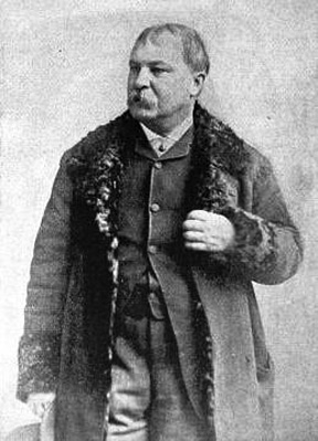 American editor William Dean Howells in 1887, "at the time of writing 'Annie Kilburn'." From Human Documents: Portraits and Biographies of Eminent Men. New York: S. S. McClure, Limited, 1895: p. 105